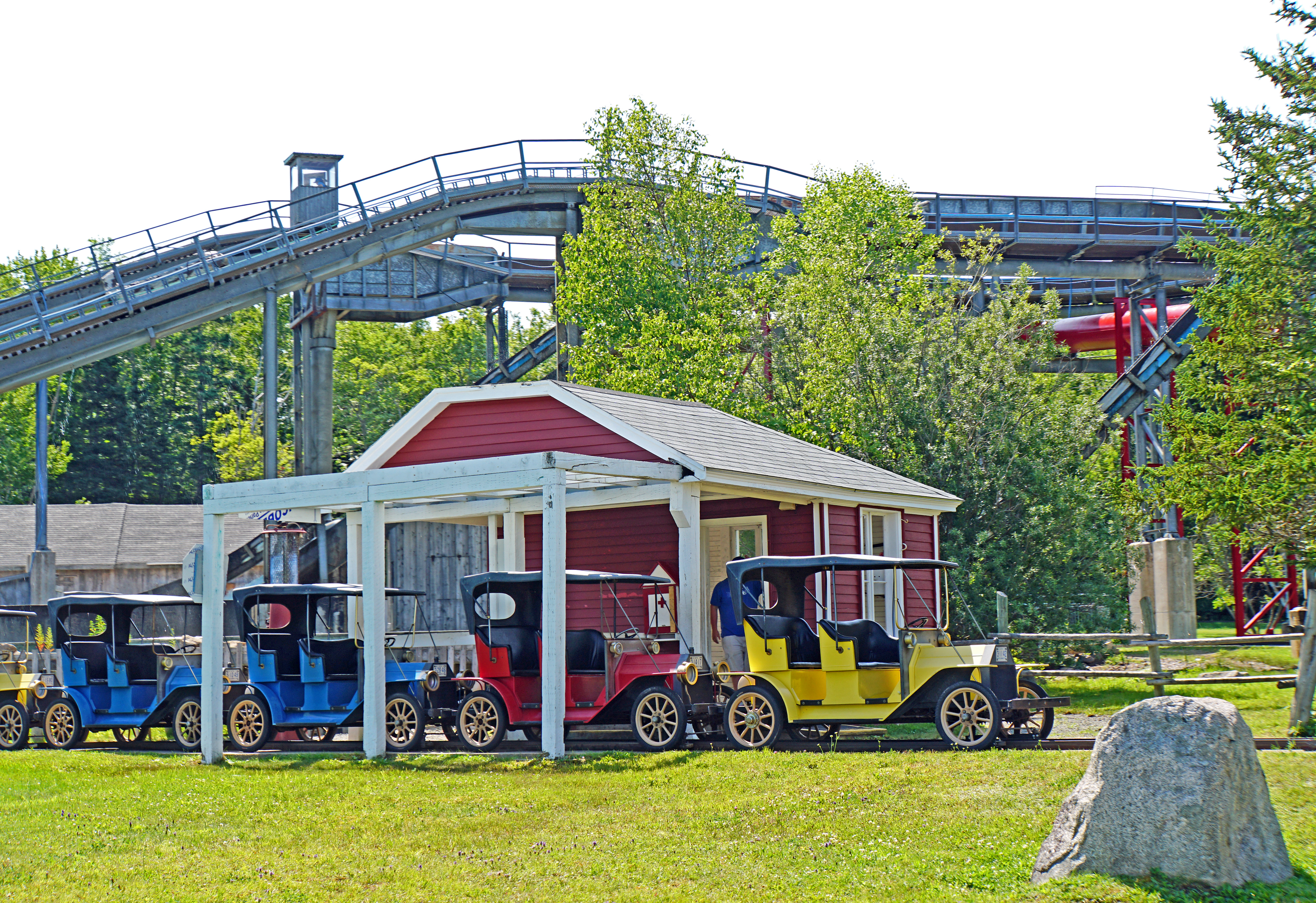 PLEASE, NO invitations or self promotions, THEY WILL BE DELETED. My photos are FREE to use, just give me credit and it would be nice if you let me know, thanks. A antique car ride at the park with part of the roller coaster in the background.